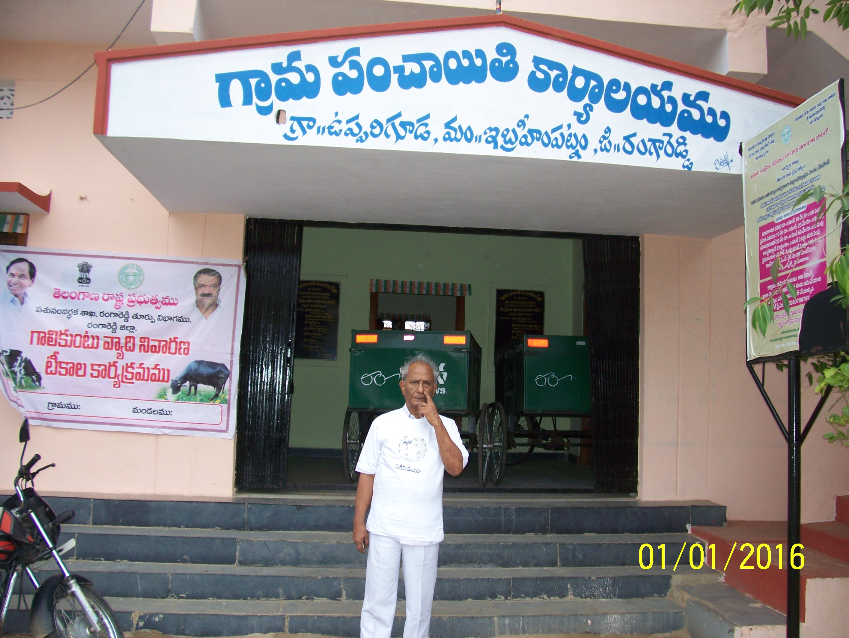 Graama panchayat office, uppariguda. villaage.